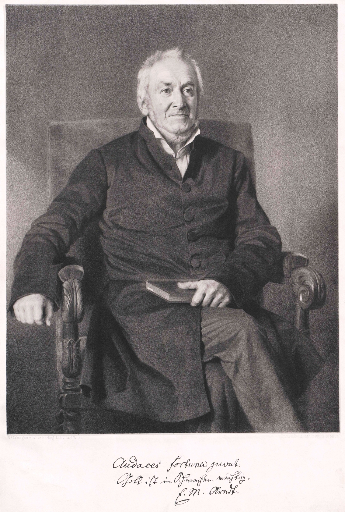 German author and poet Ernst Moritz Arndt. Lithograph by Carl Wildt, from the portrait by Julius Roeting.